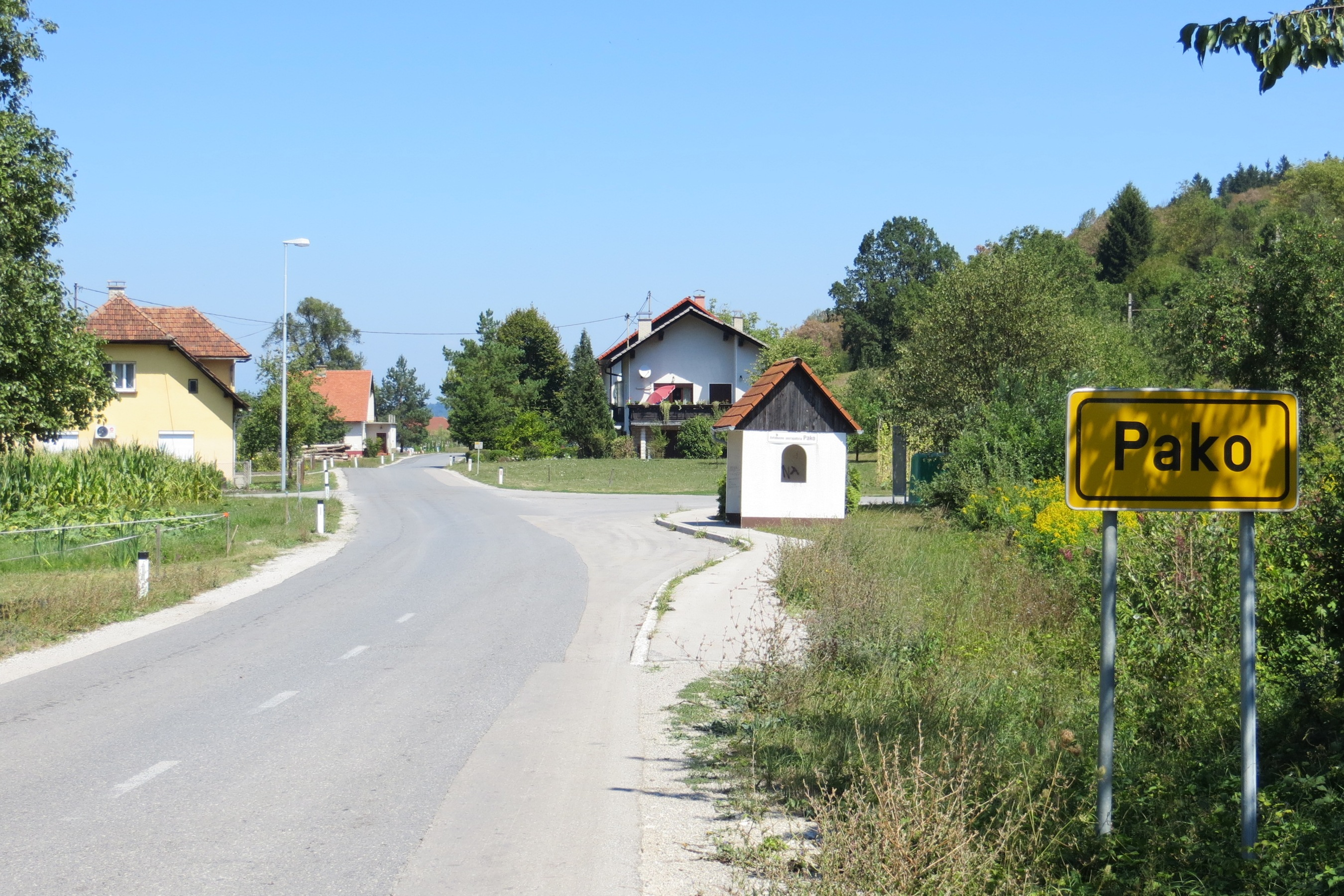 Pako, Municipality of Borovnica, Slovenia